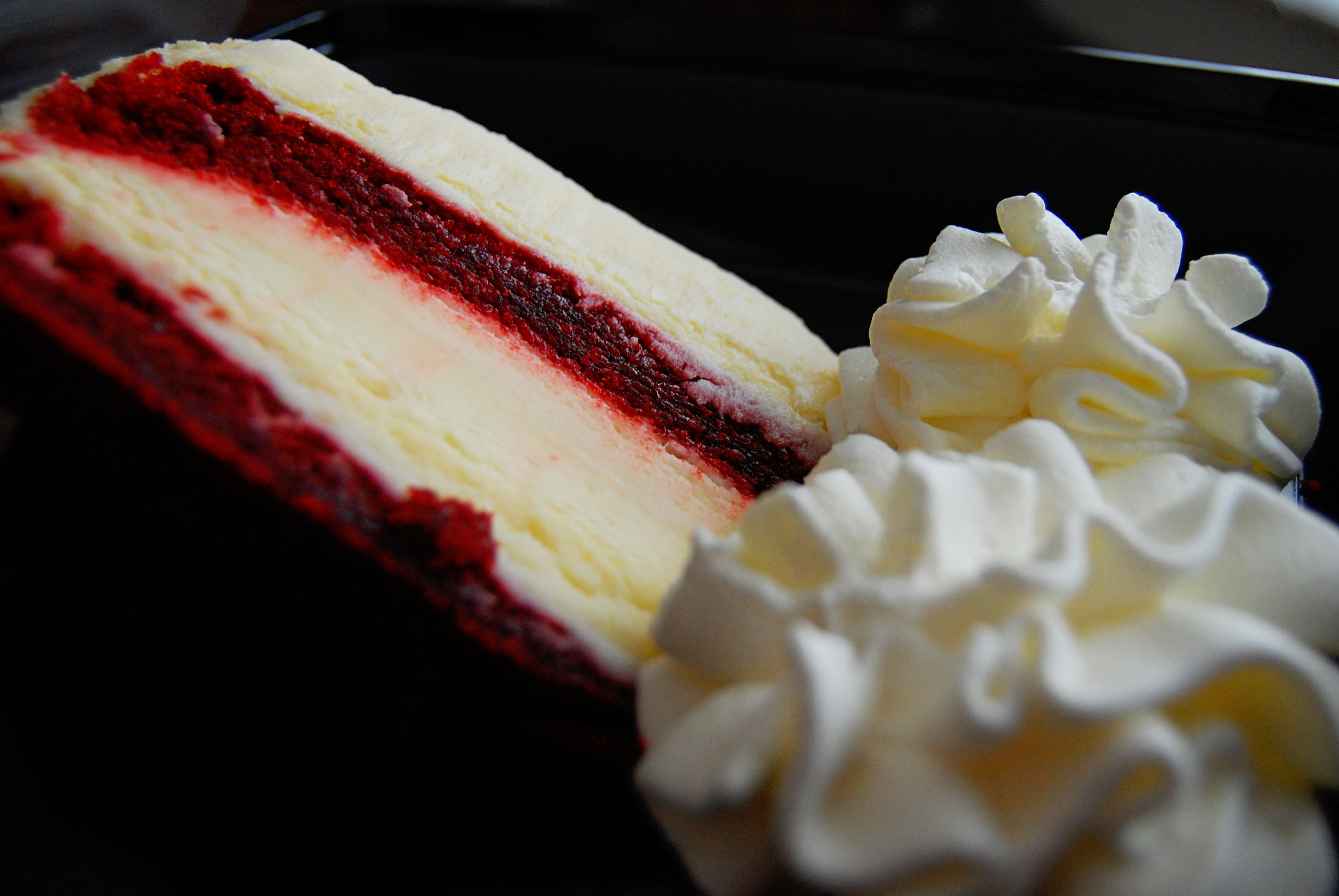 A marriage of two glorious things: red velvet cake and cheesecake.